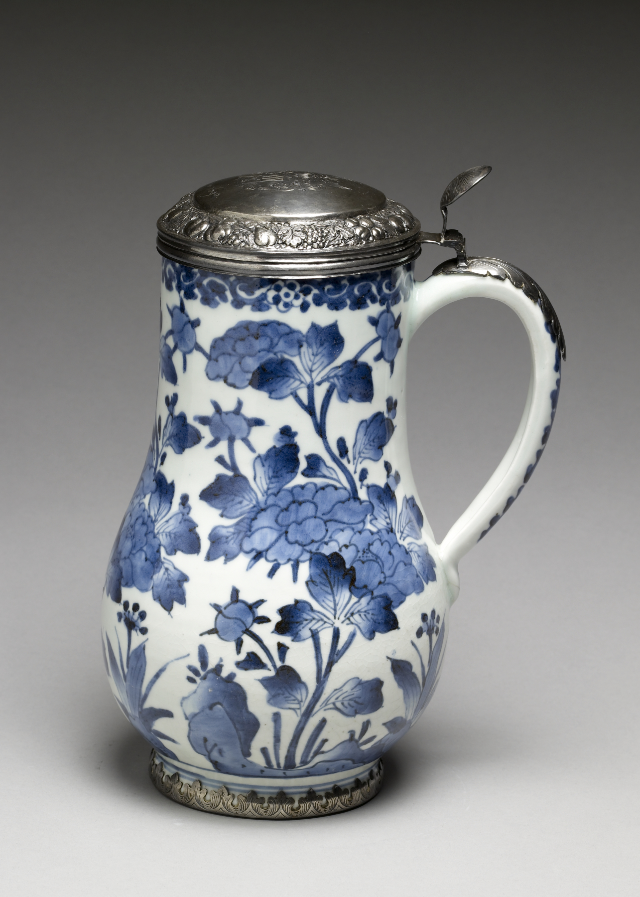 This is an example of Arita ware.